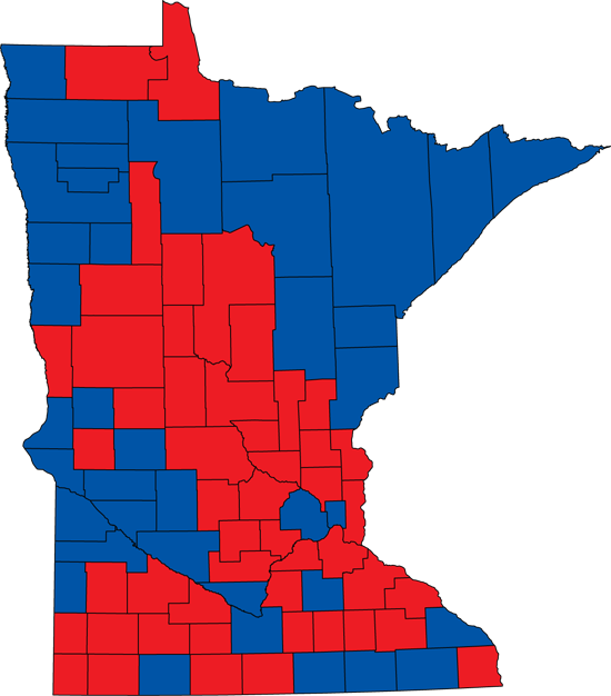 County by county map of the 2000 US Senate election in Minnesota.